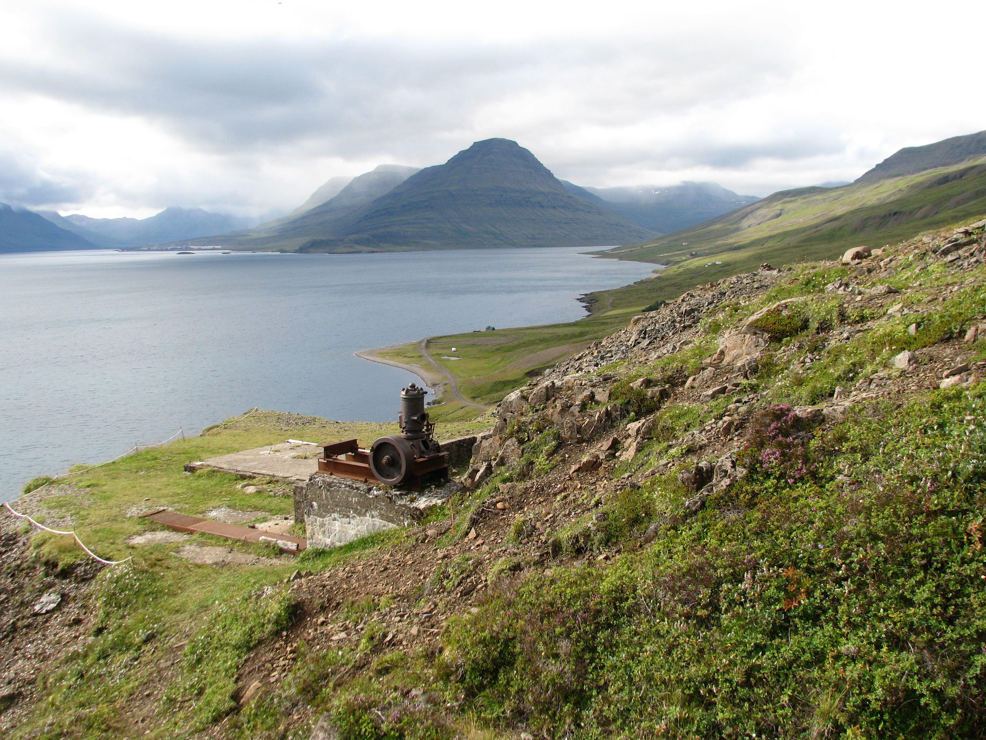 A spar mine at Helgustadir, an abandoned farm in Eastern Iceland.